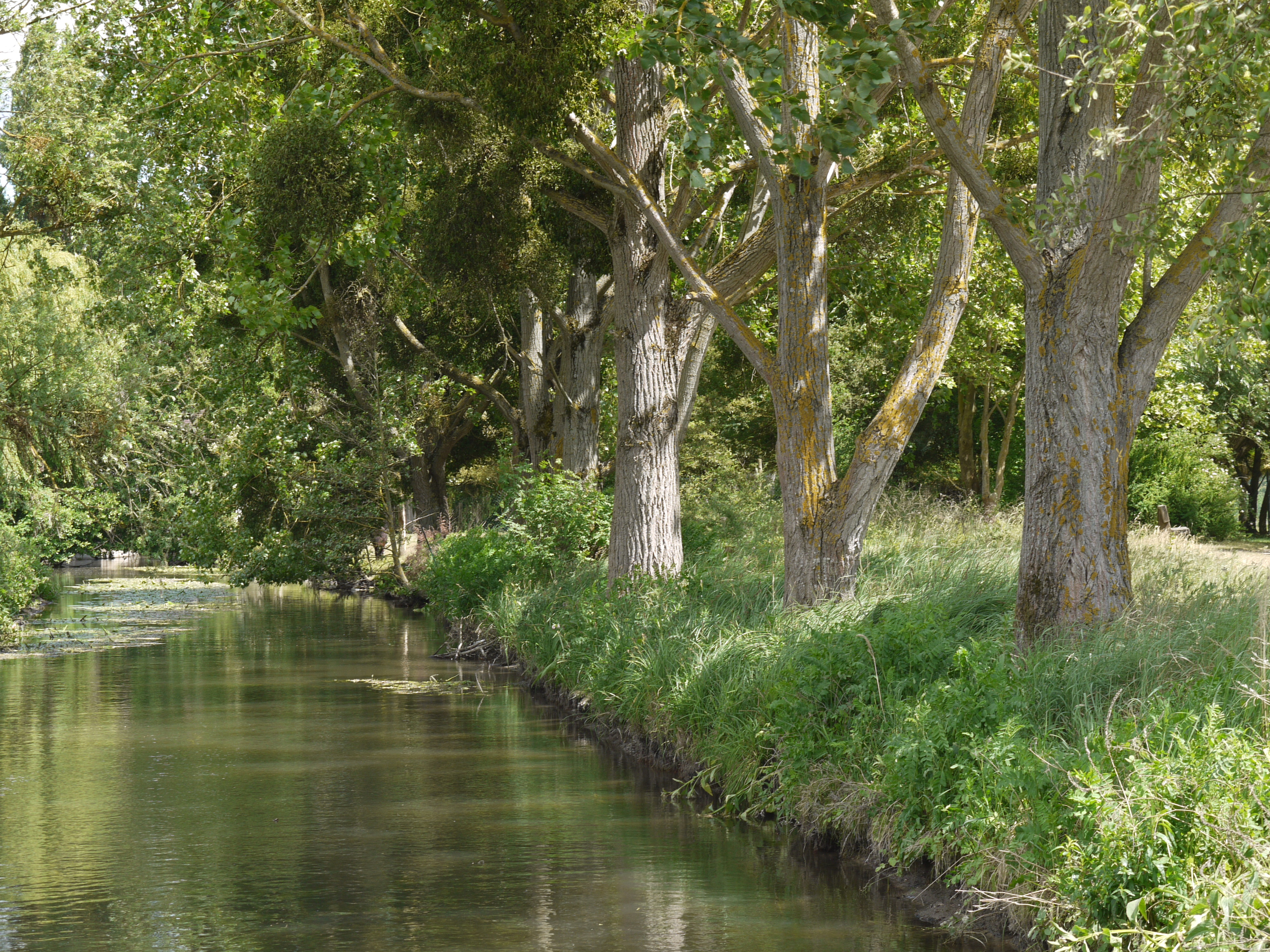 Rémarde river near the watermill of Trévoix in Ollainville (France)